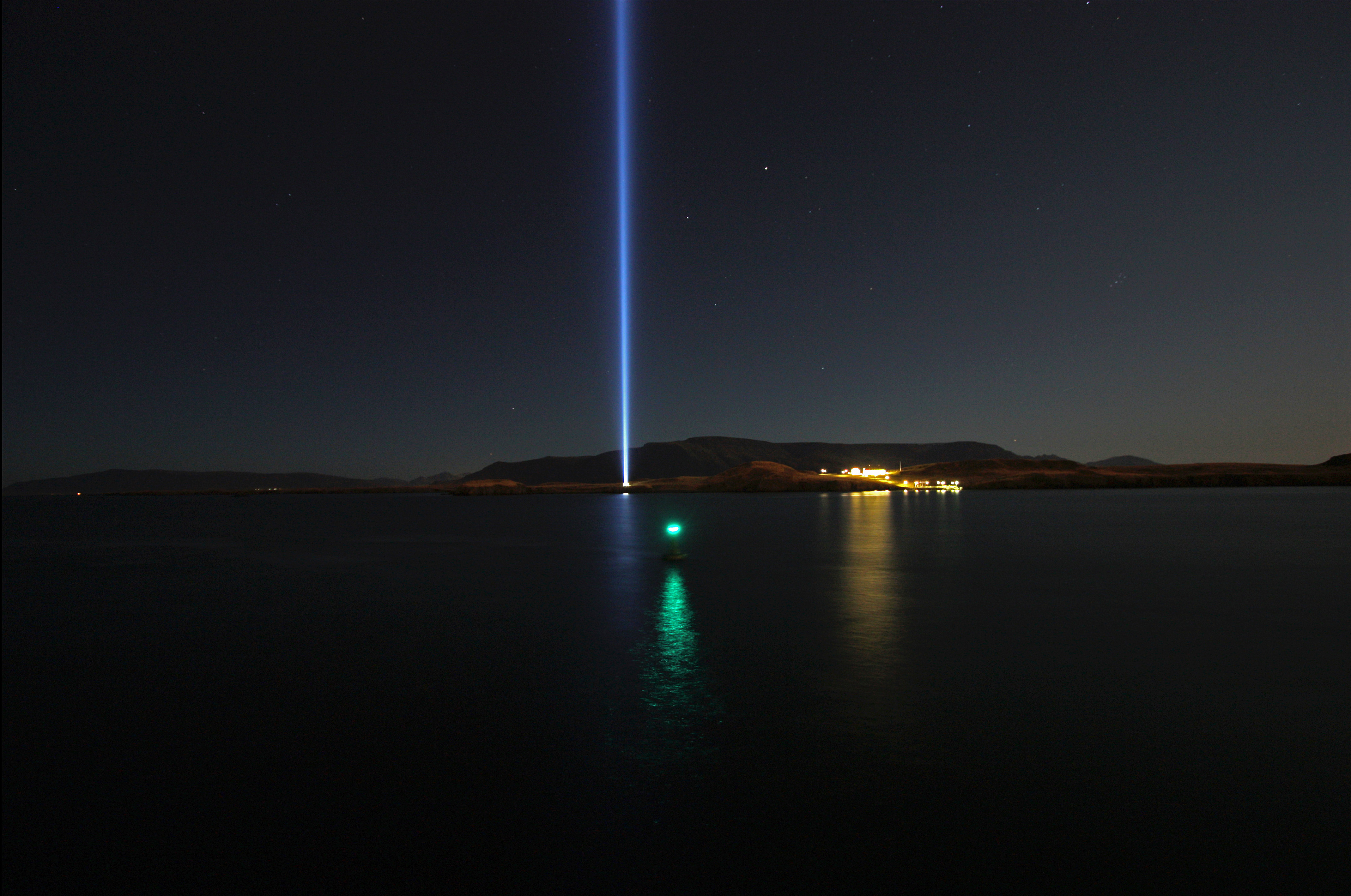 The Imagine Peace Tower on Viðey Iceland near Reykjavik